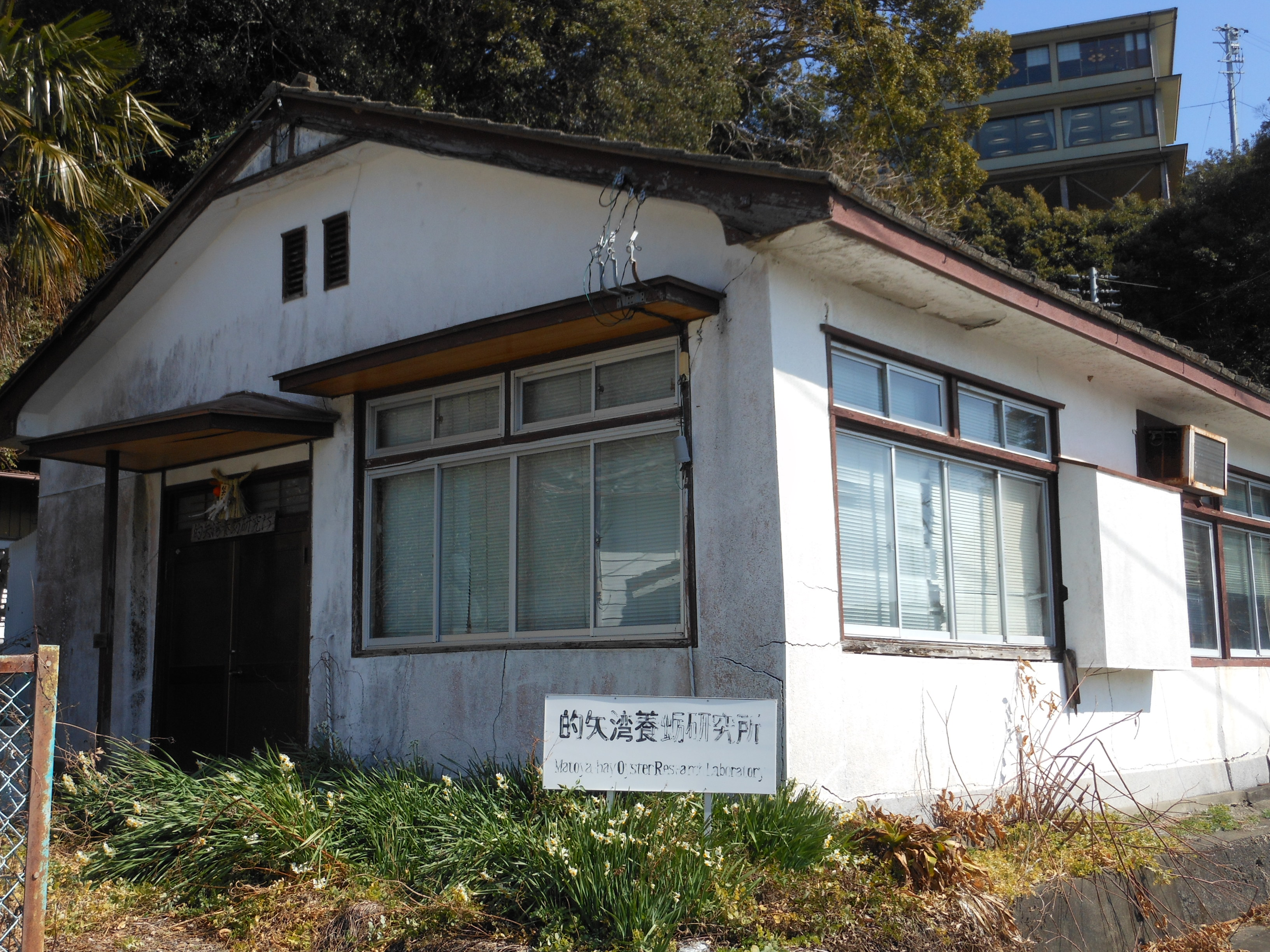 This is the Matoya Oyster Research Labortory in Japan.